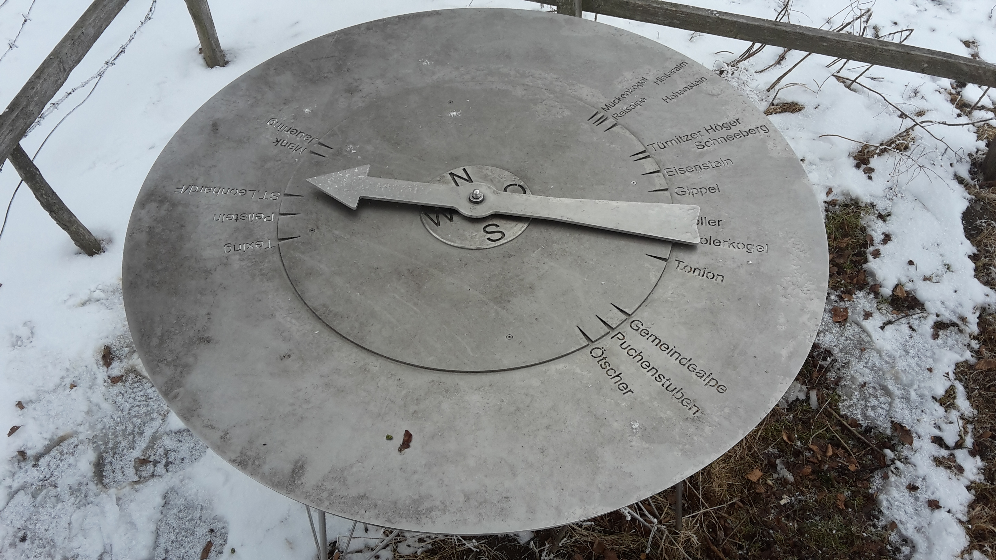 Rotable fingerpost at Bichlberg in Kirchberg an der Pielach